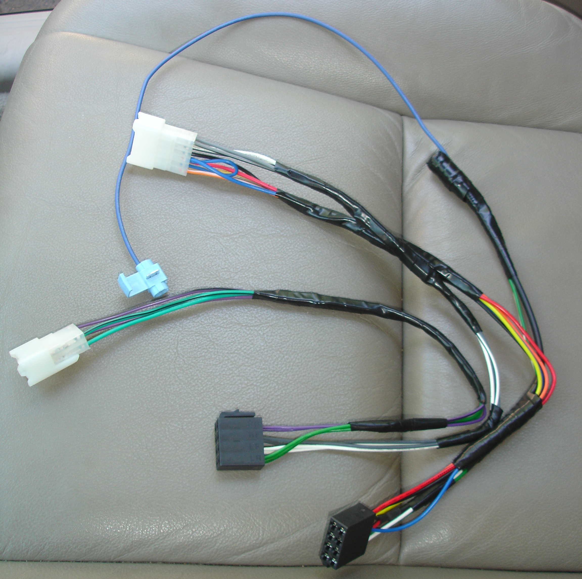 Wire harness for adapting speaker wires in car audio to an aftermarket head unit.